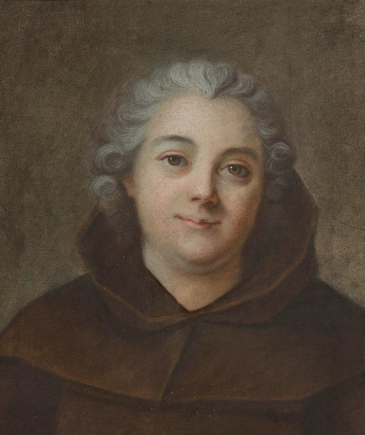 Louise Anne de Bourbon, Mademoiselle de Charolais (1695-1758)